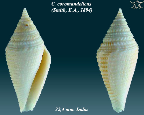 Conasprella coromandelica (E. A. Smith, 1894)